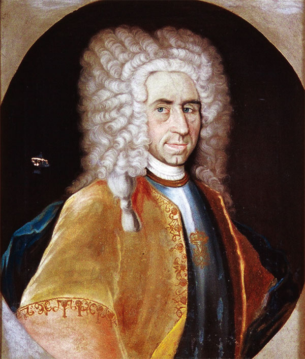 Carl Albert von Passow (1685-1755)